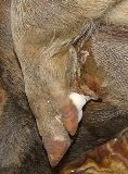 fungal growths on hoof of pig